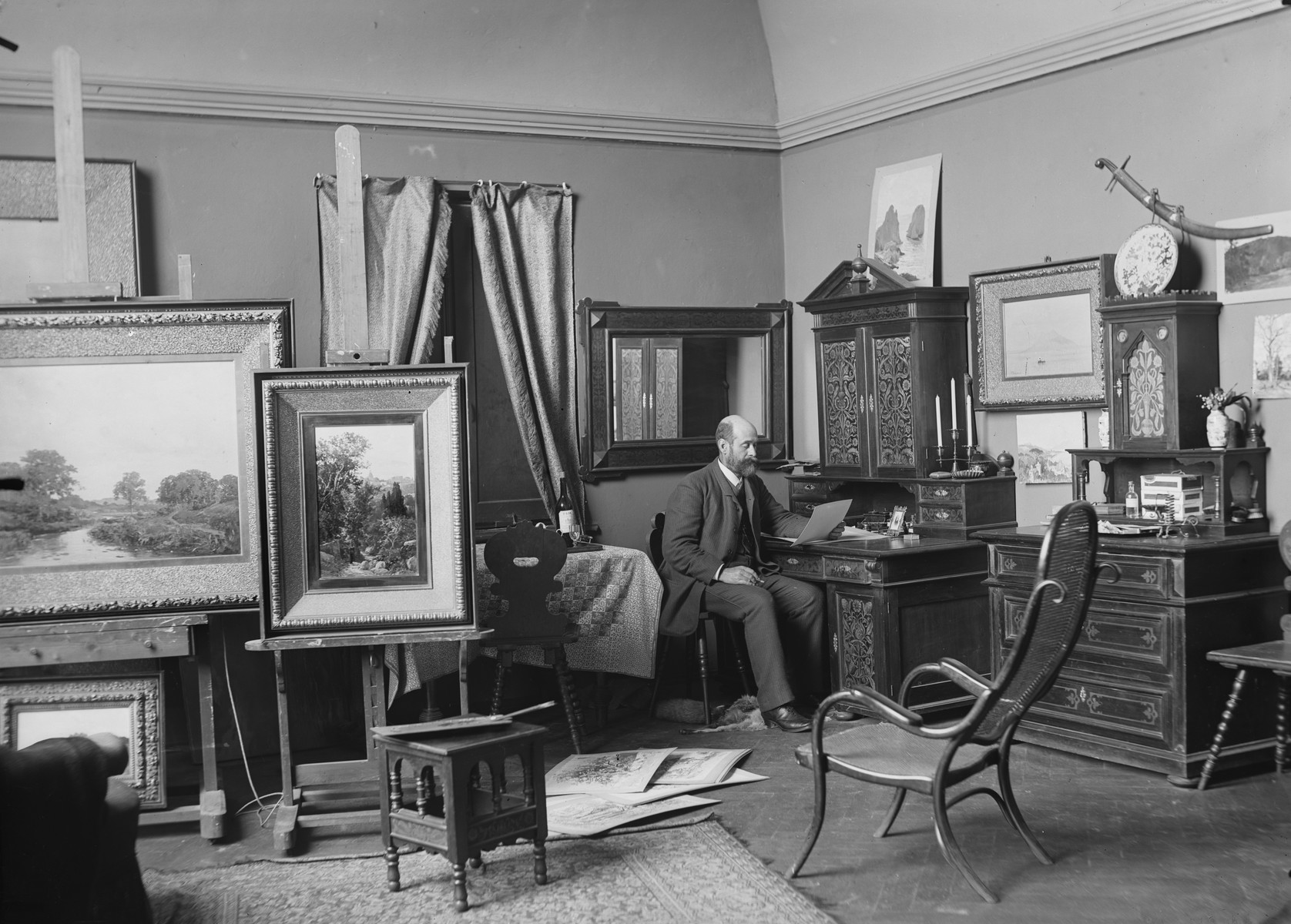 The Studio of Karl Lorenz Rettich in Munich